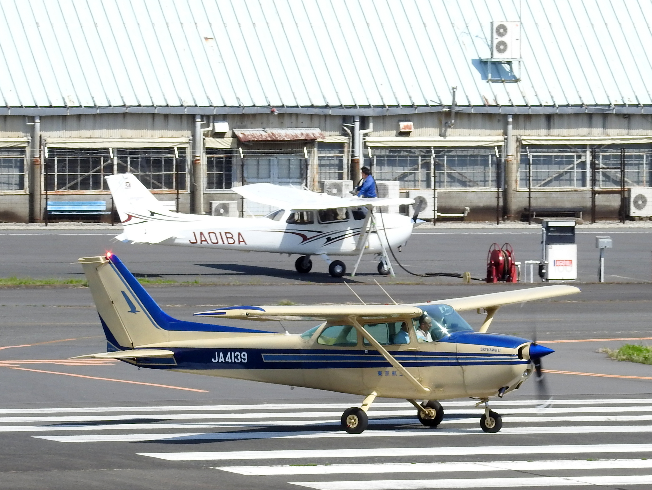 Cessna 172 Skyhawk II JA4139 operated by Toho Air Service taxiing at Chofu Airport in Tokyo, Japan